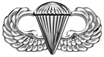 The Parachutist Badge awarded by the United States Army to those who complete Airborne School.